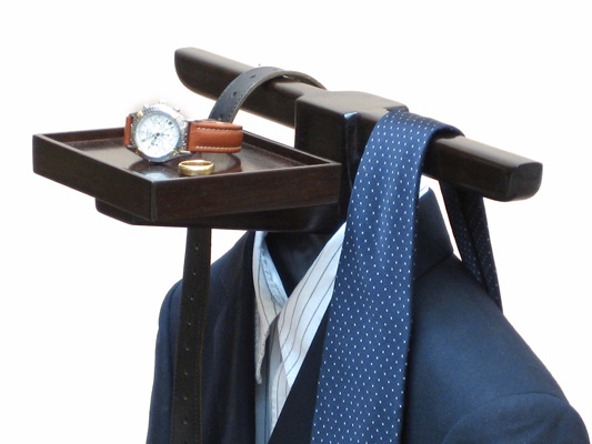 Top section of walnut gentlemen's valet showing the suit hanger, accessory